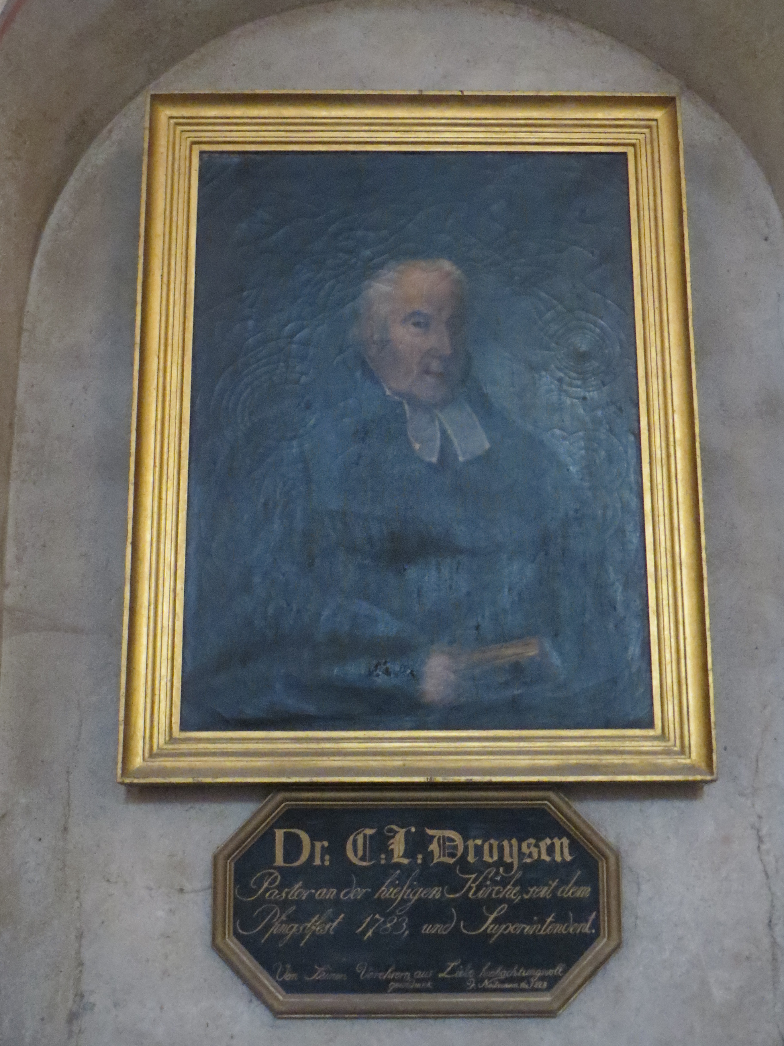 Interior of Marienkirche Bergen auf Rügen